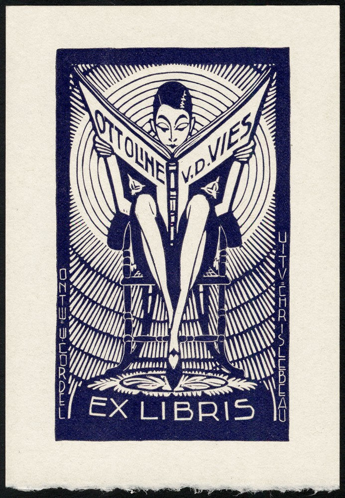 Ex Libris of Ottoline van der Vies, by Chris Lebeau. Text reads: Design by Willem Cordel, realization by Chris Lebeau.